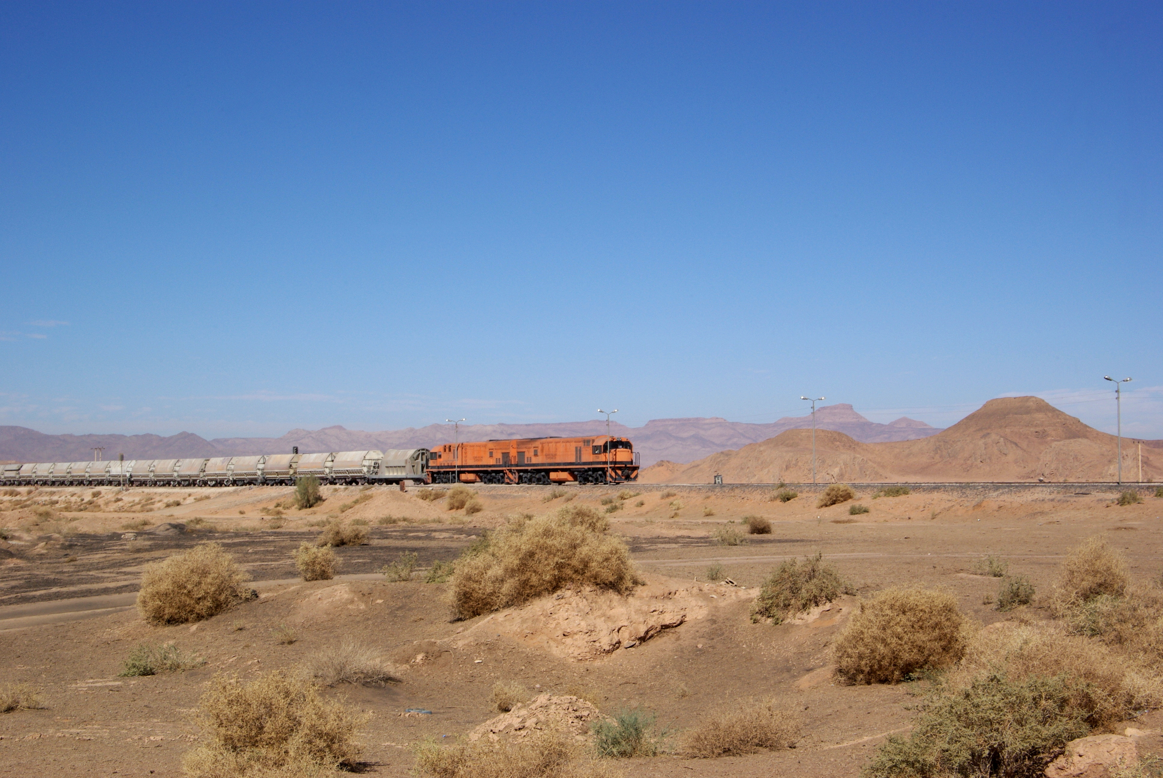 Train of the Aqaba Railway Corporation at Rum Station